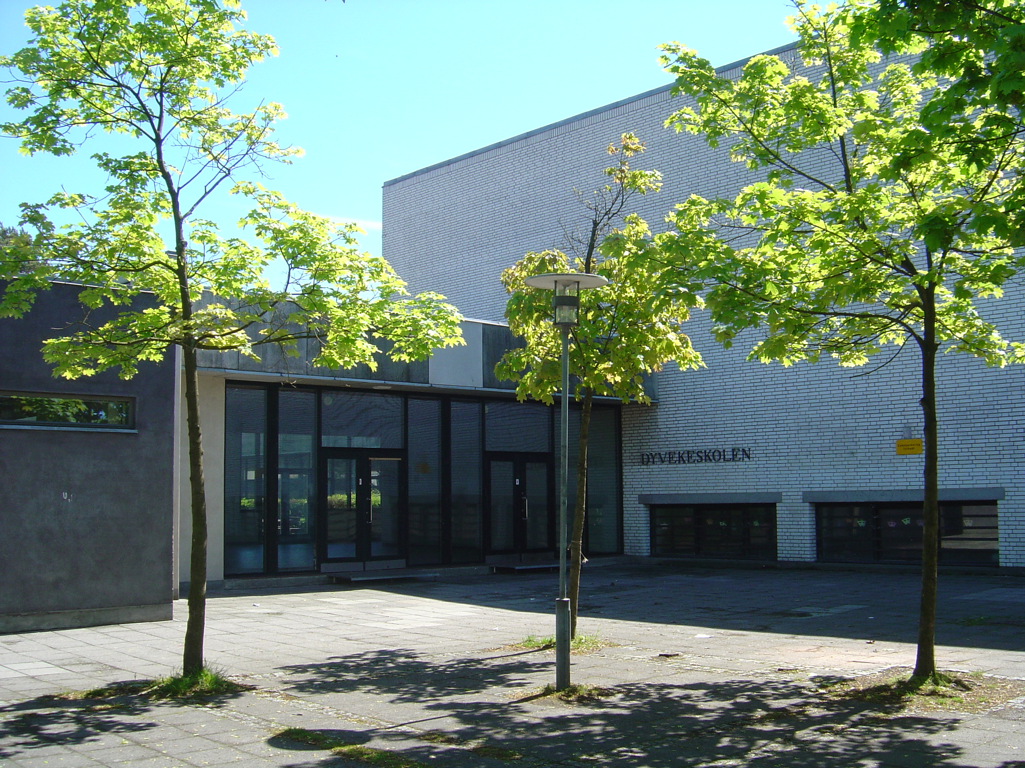 Dyvekeskolen - a Danish public school on Amager, Copenhagen. The main entrance seen from the northwest side.